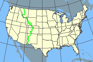 Transwiki approved by: User:Dmcdevit. This image was copied from en. The original description was: [1]